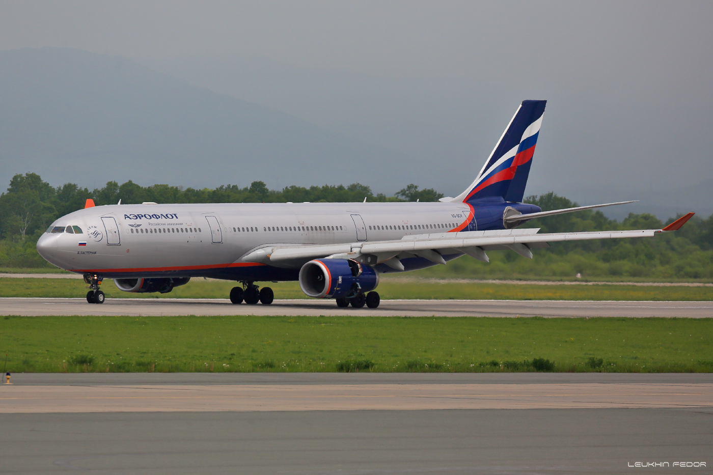 Aeroflot Airbus A330-343